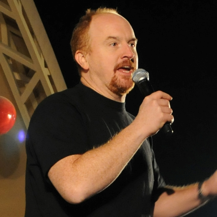 Comedian Louis C.K. performs for servicemembers at the Zone 6 Morale, Welfare and Recreation Stage during the Sergeant Major of the Army Hope and Freedom Tour 2008, Camp Arifjan Kuwait, Dec. 18, 2008.